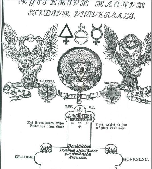 As you see